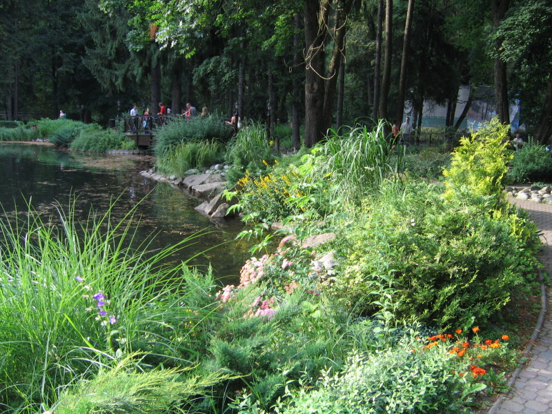 Rajecké Teplice, park around a pool